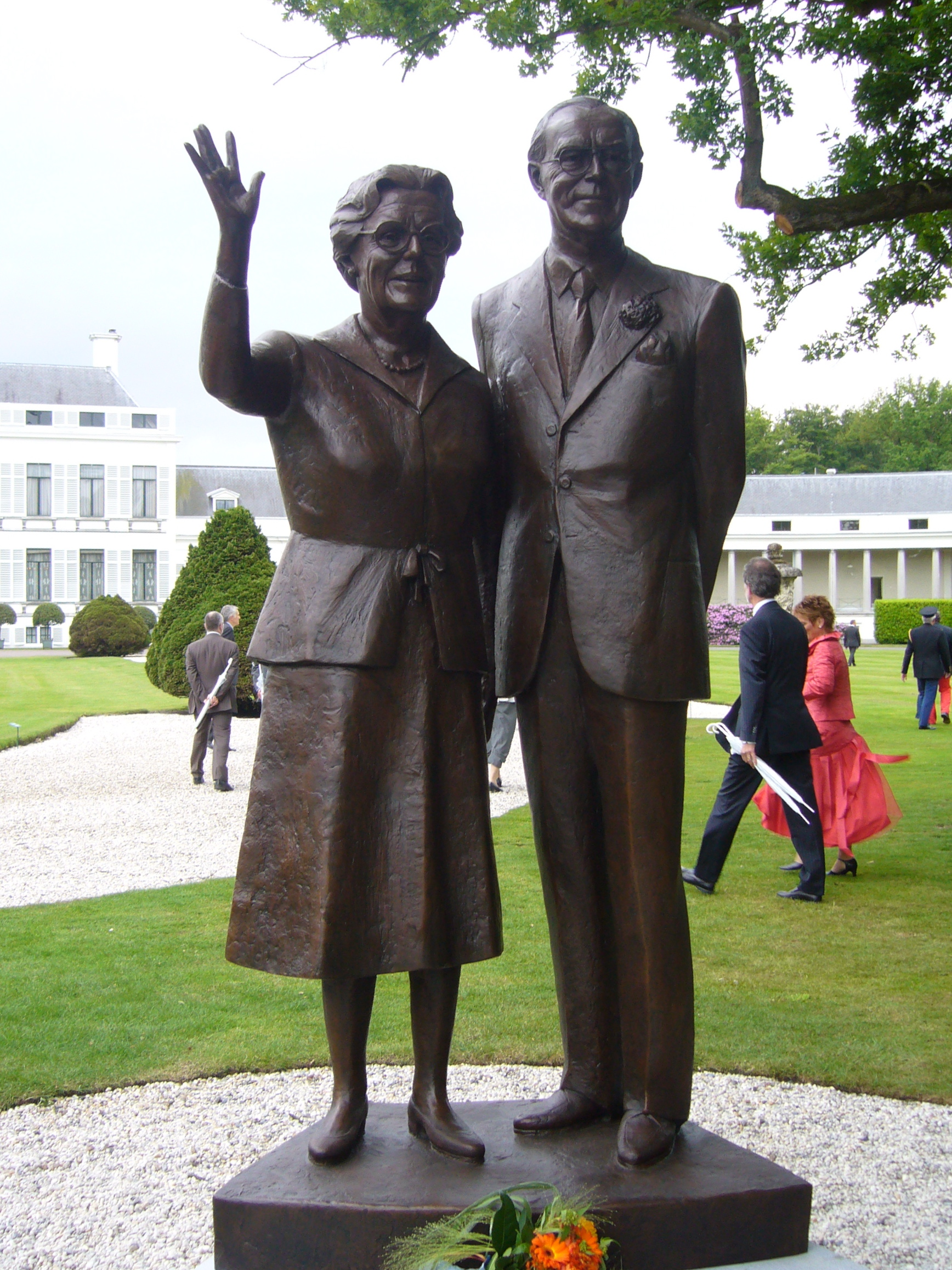 Statue of Juliana of the Netherlands and het husband Bernhard zur Lippe-Biesterfeld in the garden of Soestdijk Palace